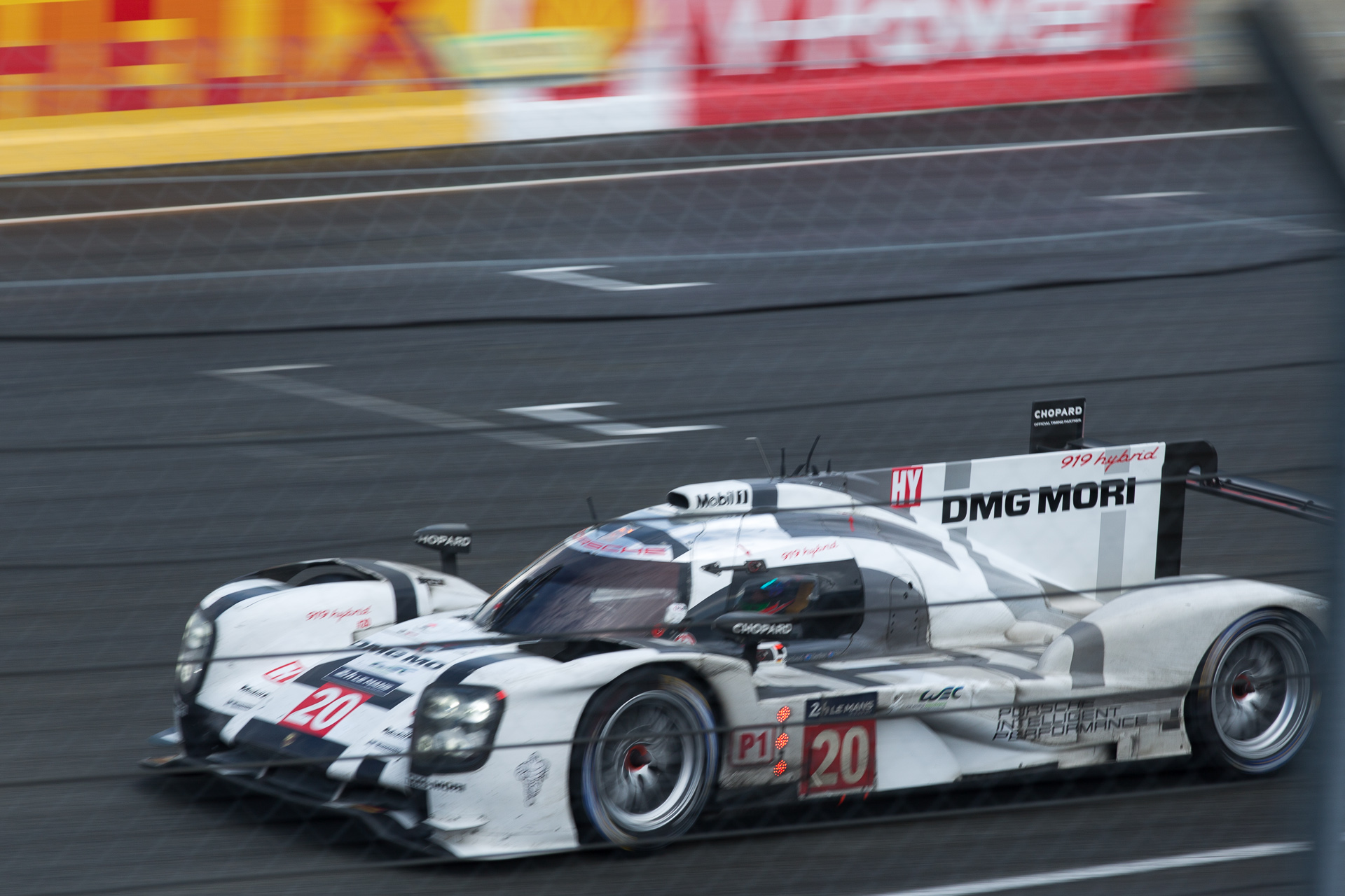 The No. 20 Porsche 919 Hybrid at the 2014 24 Hours of Le Mans